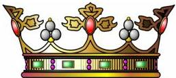 Coronet of a Marquis